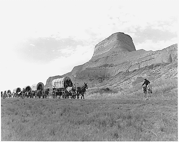 Original description: Mounted man leading wagon train past rock formations.